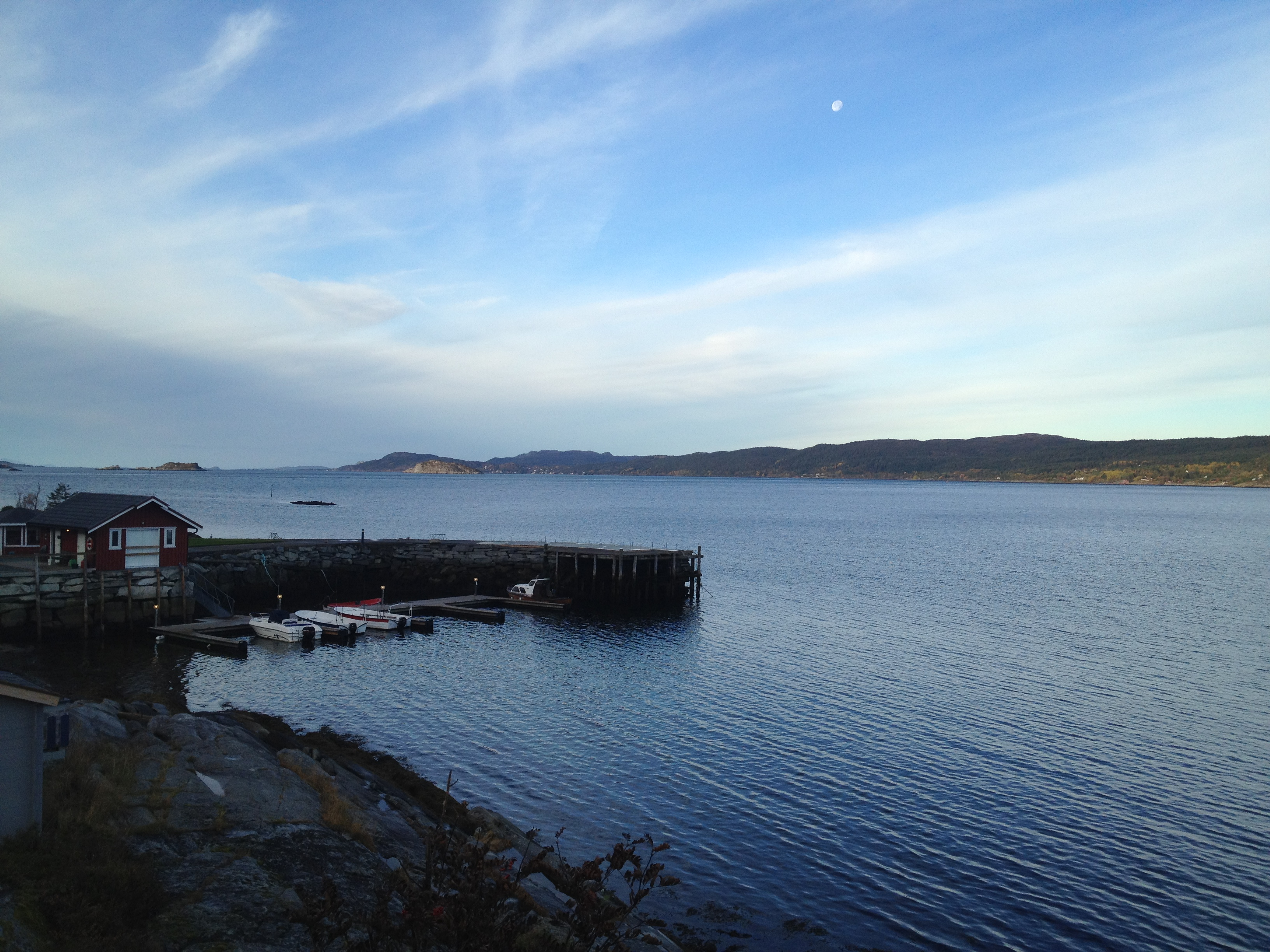 Rissa, Norway